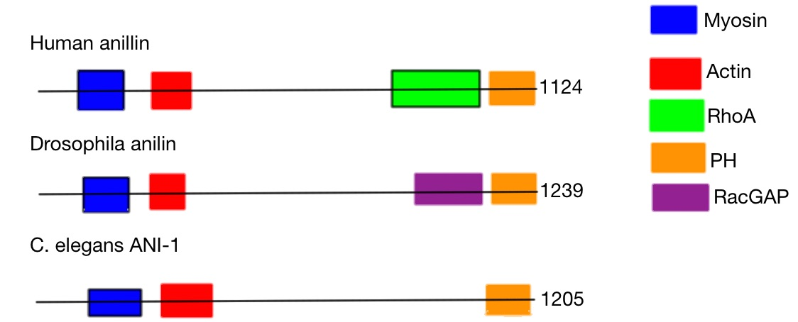 Anillin